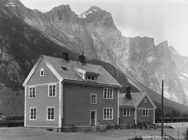 Marstein railway station on Raumabanen, Norway, just after opening in 1924.